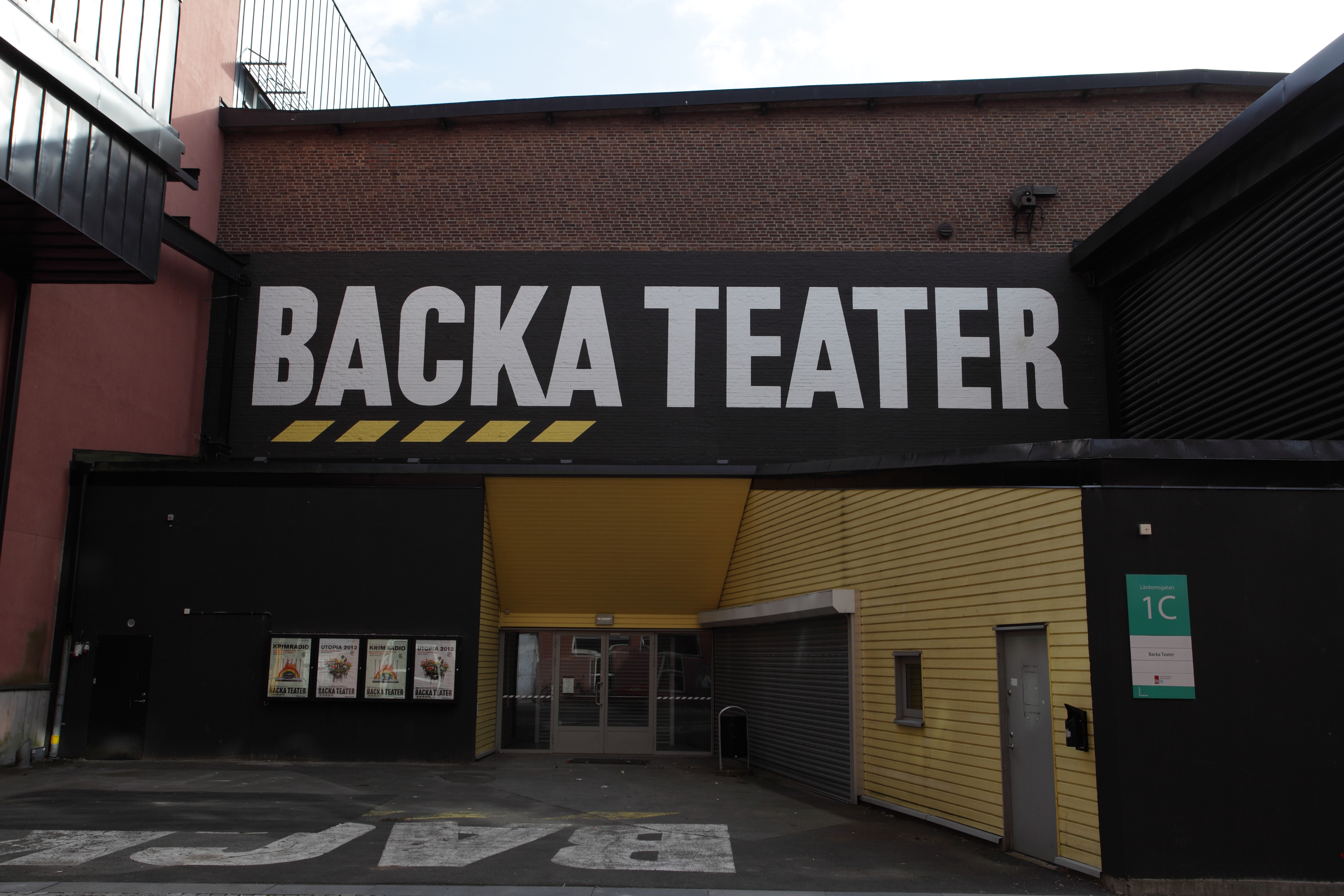 The rear side of Backa Teater, Göteborg.